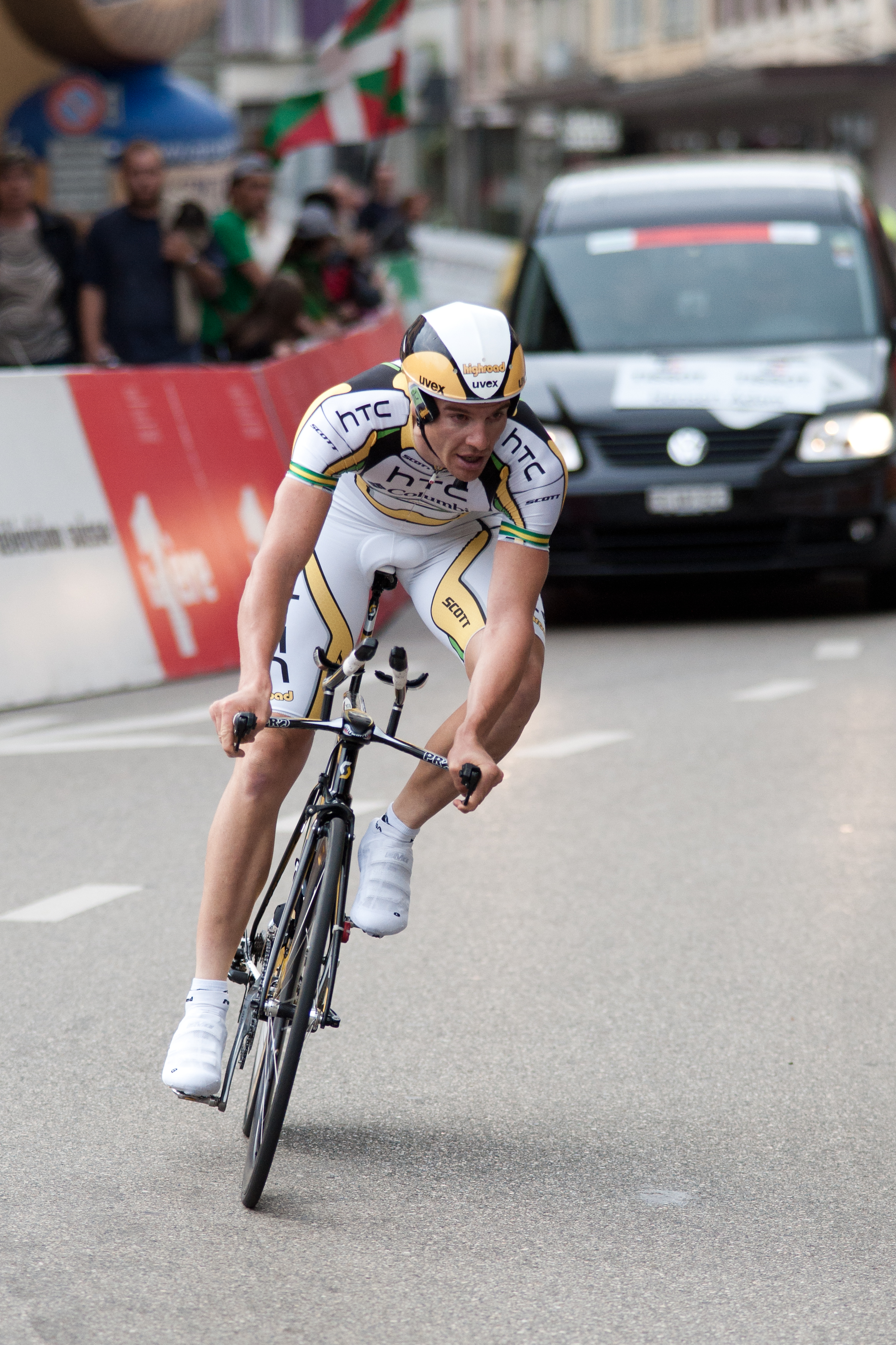 Adam Hansen during the 3rs stage of the Tour de Romandie 2010.